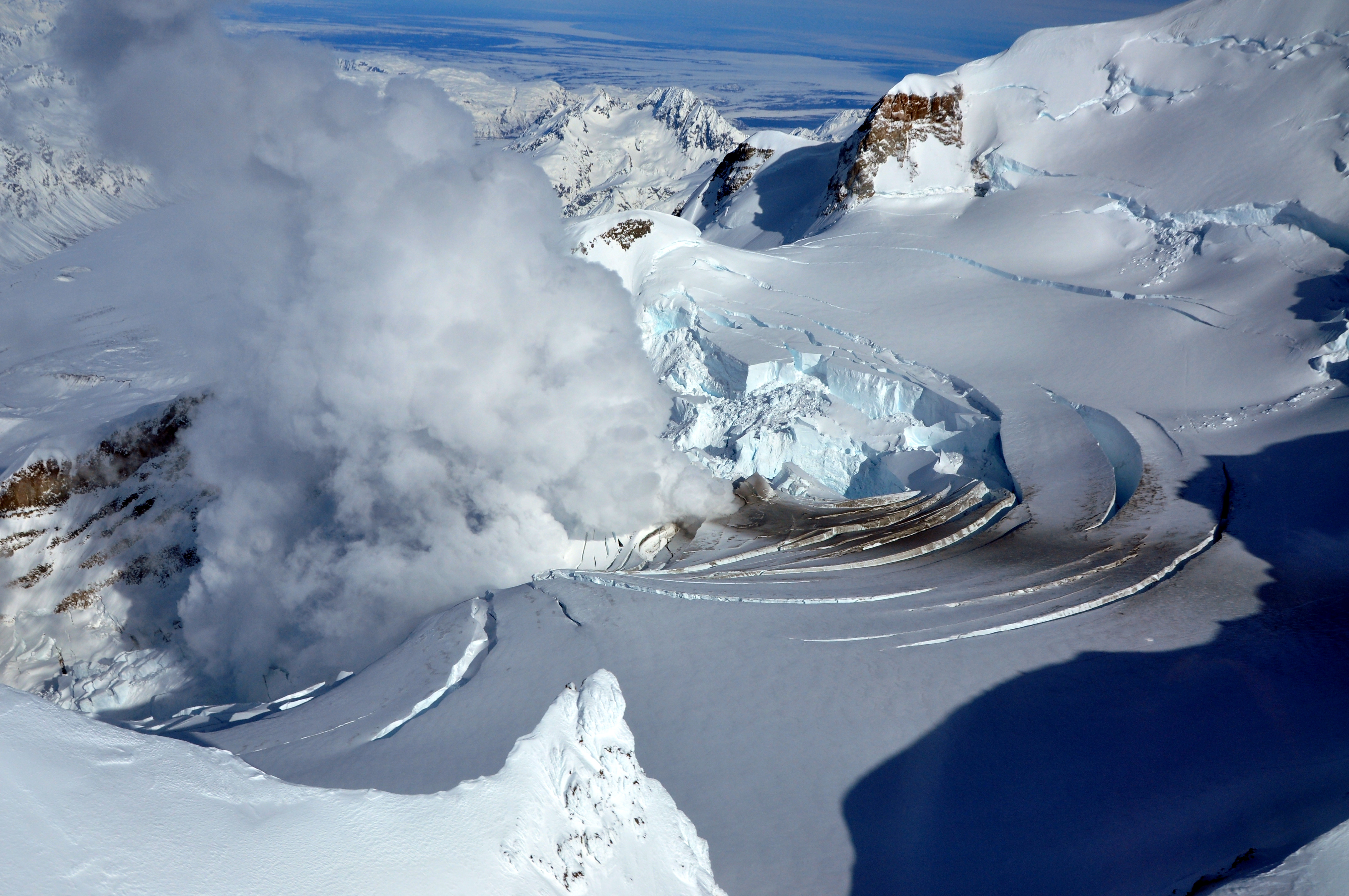 Fumarole on Mount Redoubt, Alaska, USA. One day before the eruption of 2009-03-22 the volcano shows steam venting and the summit glacier melting and breaking in an "ice piston" feature.